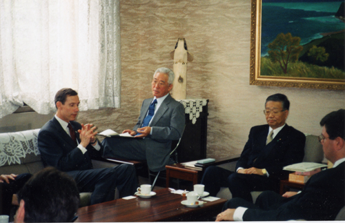 Conrad C. Lautenbacher, Administrator of the National Oceanic and Atmospheric Administration, and Scott Rayder, Chief of Staff of the National Oceanic and Atmospheric Administration, talked with Takashi Aoyama, Senior Vice Minister of Education, Culture, Sports, Science and Technology, at the Ministry of Education, Culture, Sports, Science and Technology in Chiyoda Ward, Tōkyō Metropolis in 2002.